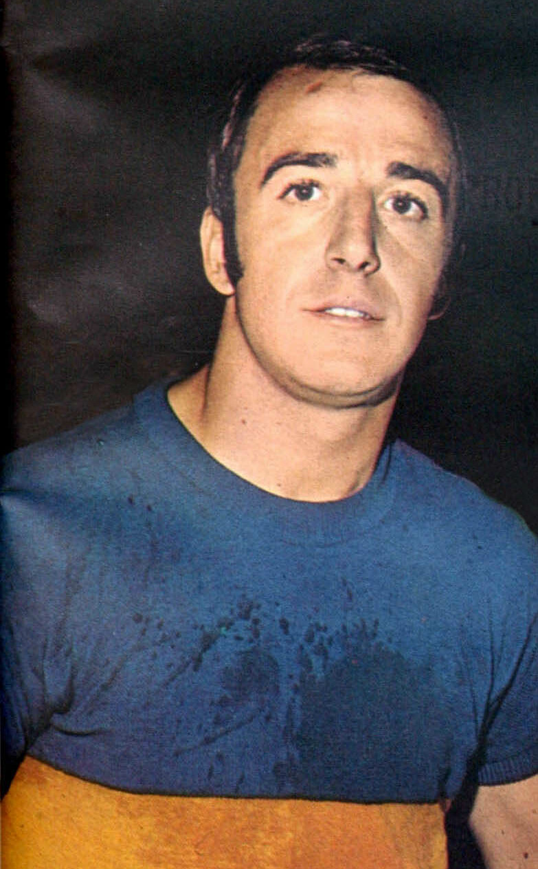 Norberto Madurga, Boca (2) vs Santos (2) at Mar del Plata, friendly match